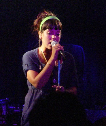 Lily Allen live